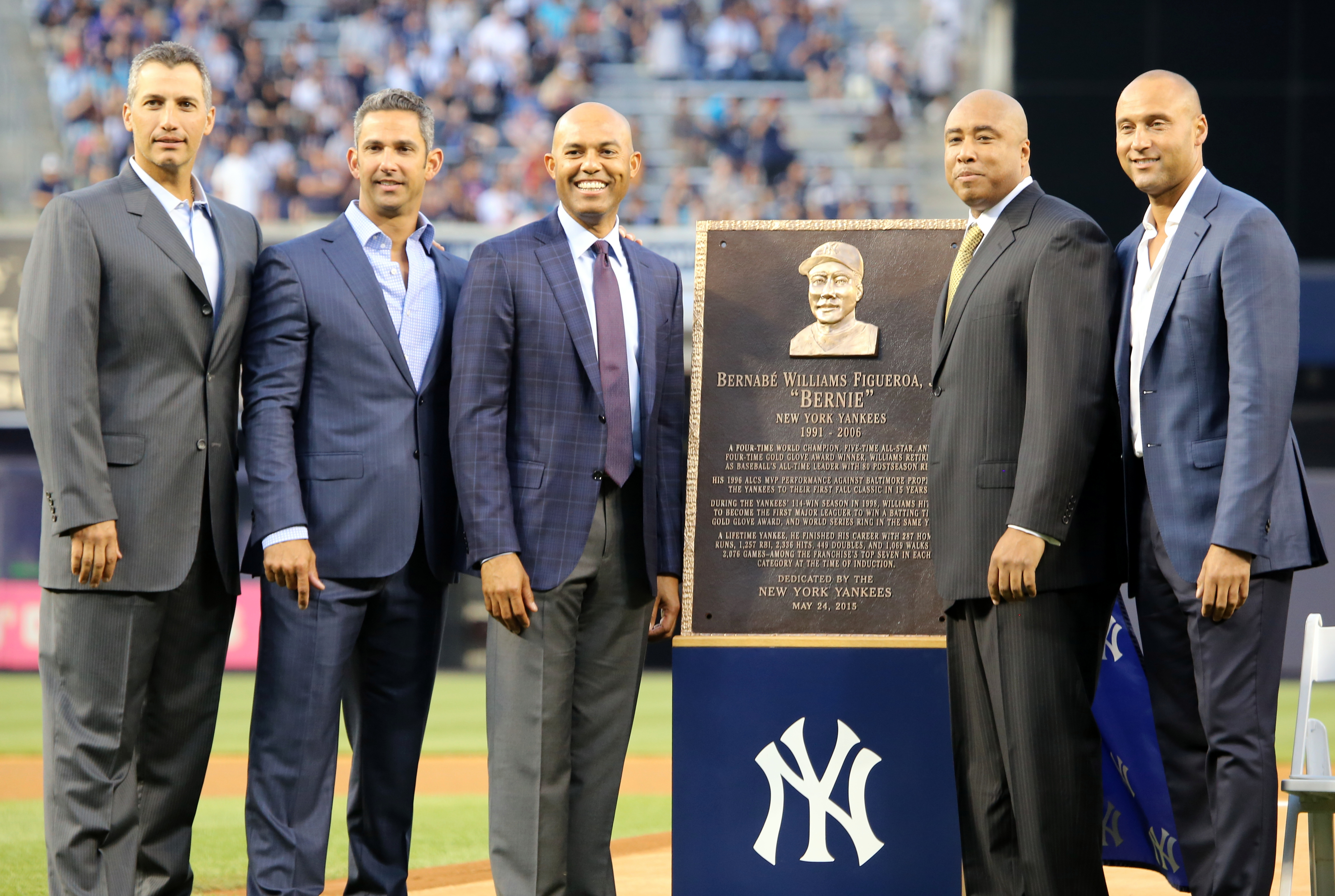 Andy Pettitte, Jorge Posada, Mariano Rivera, Bernie Williams and Derek Jeter: The Fab 5 - together again.